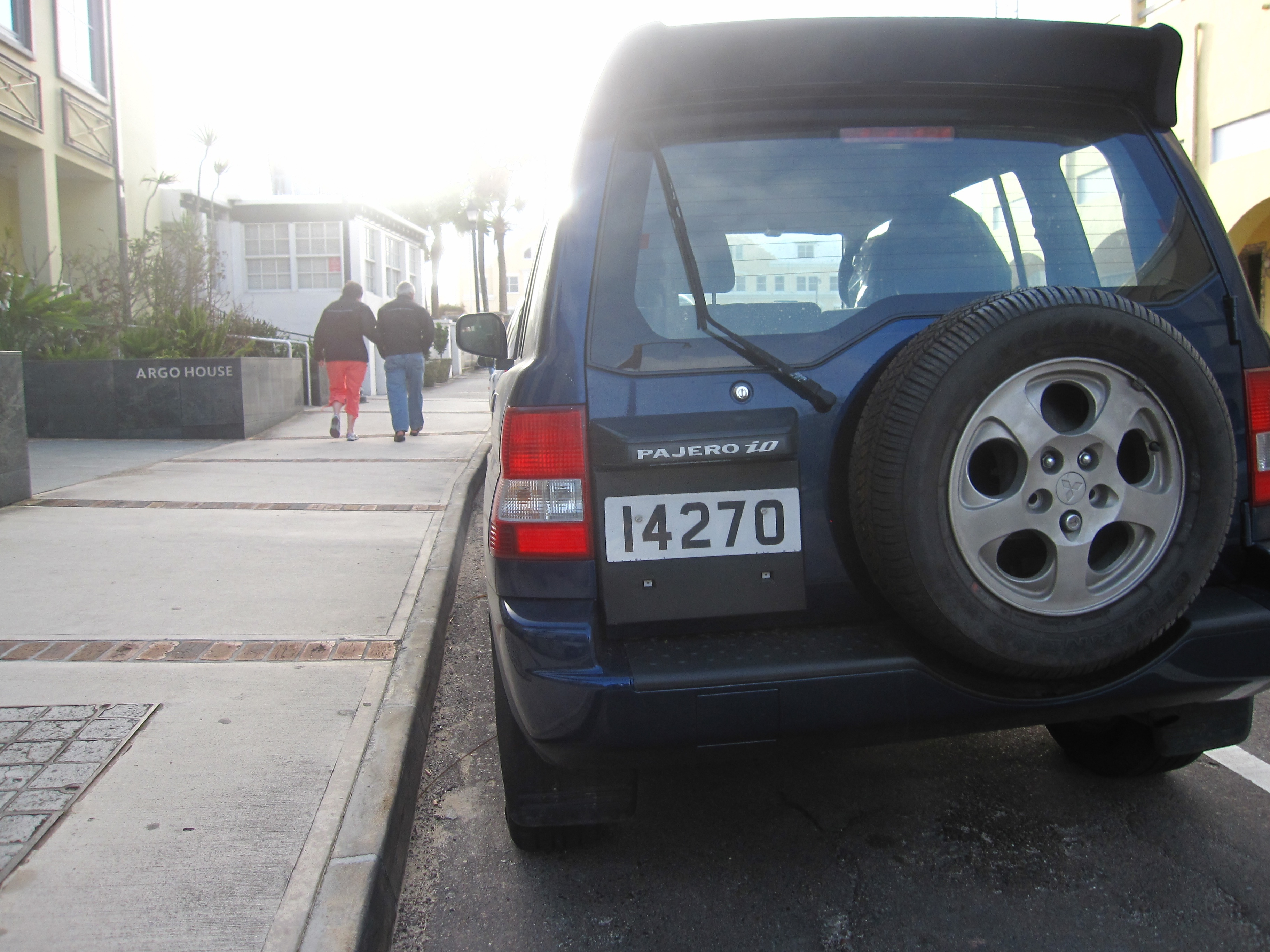 Mitsubishi Pajero with license plate from Bermuda